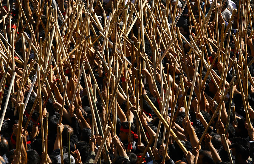 Traditional ceremony of Qalishouyan ((carpet washing)) in Kashan. Qalishouyan ritual is held on the second Friday of Mehr Month (early October).